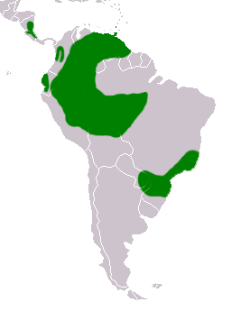 Range map of Chaeturacinereiventris.